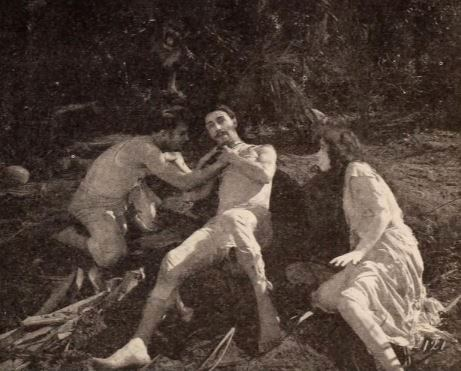 Still from the American film The Revenge of Tarzan (1920) with Walter Miller, Armand Cortes, and Karla Schramm, on page 43 of the February 14, 1920 Exhibitors Herald.